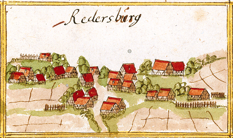 View of Rettersburg, Berglen, from the forest register books created by Andreas Kieser